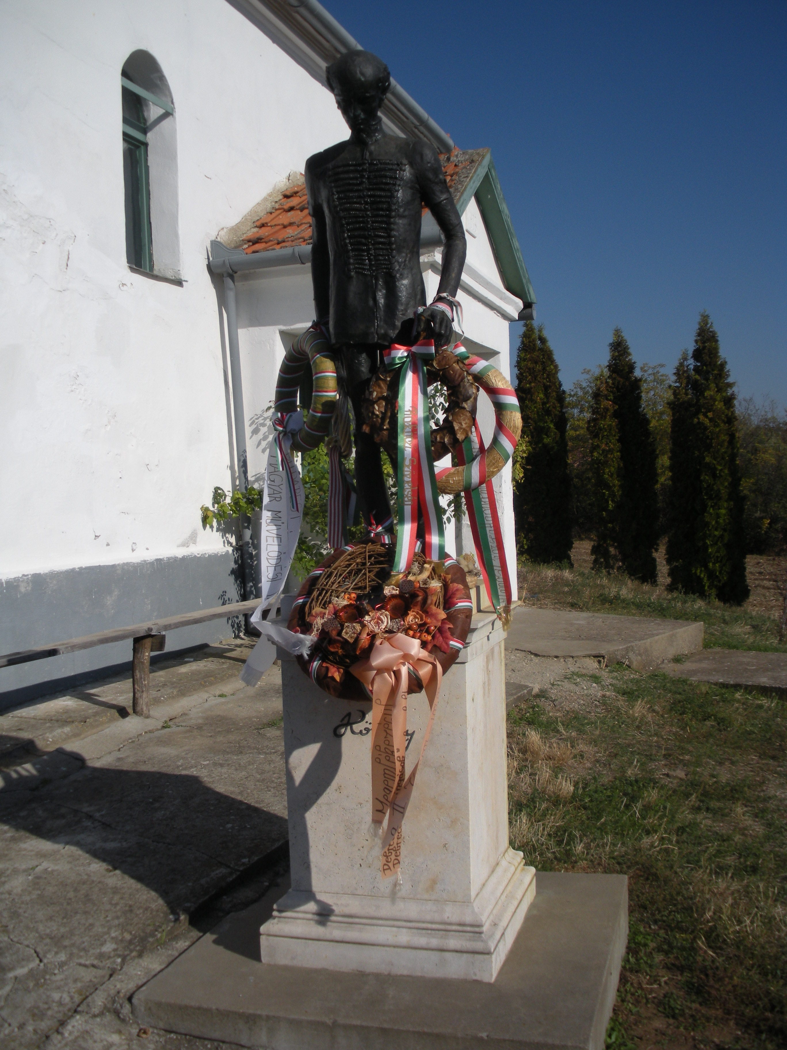 Statue of the Hungarian poet Ferenc Kölcsey in Sződemeter, Romania.